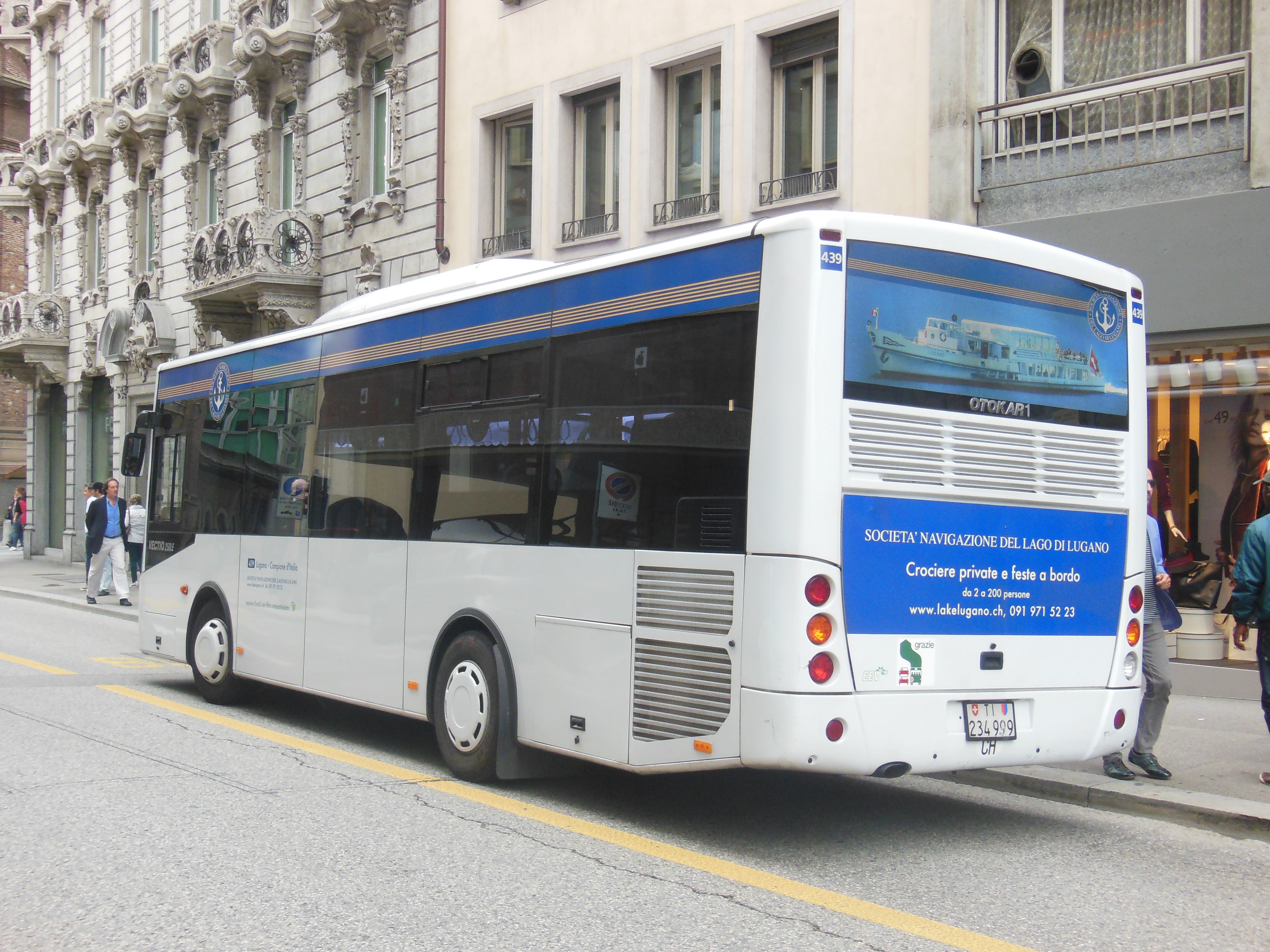 A bus of the Società Navigazione del Lago di Lugano, used on the service to Campione D'Italia. For more information, see wikipedia article Società Navigazione del Lago di Lugano.